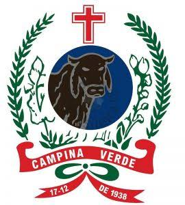 Coat of arms of the city of Campina Verde, Minas Gerais, Brazil.